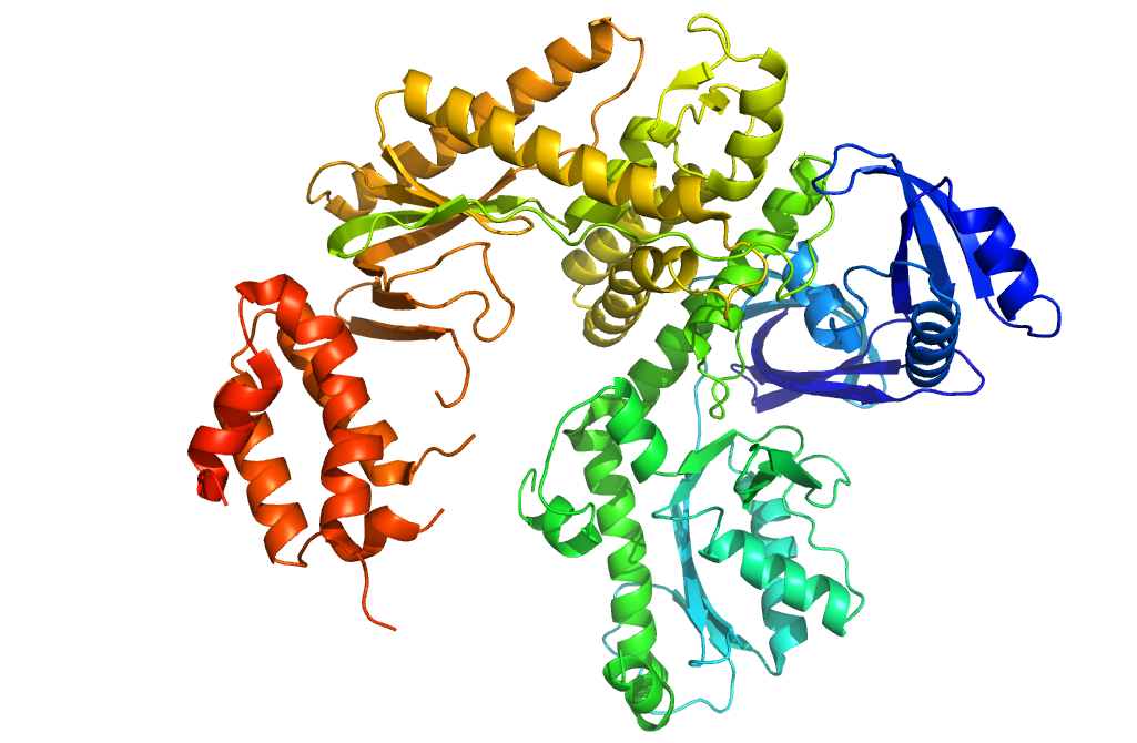 protein structure of dna polymerase 2 from escherechia coli. based on PDB file 3K5M